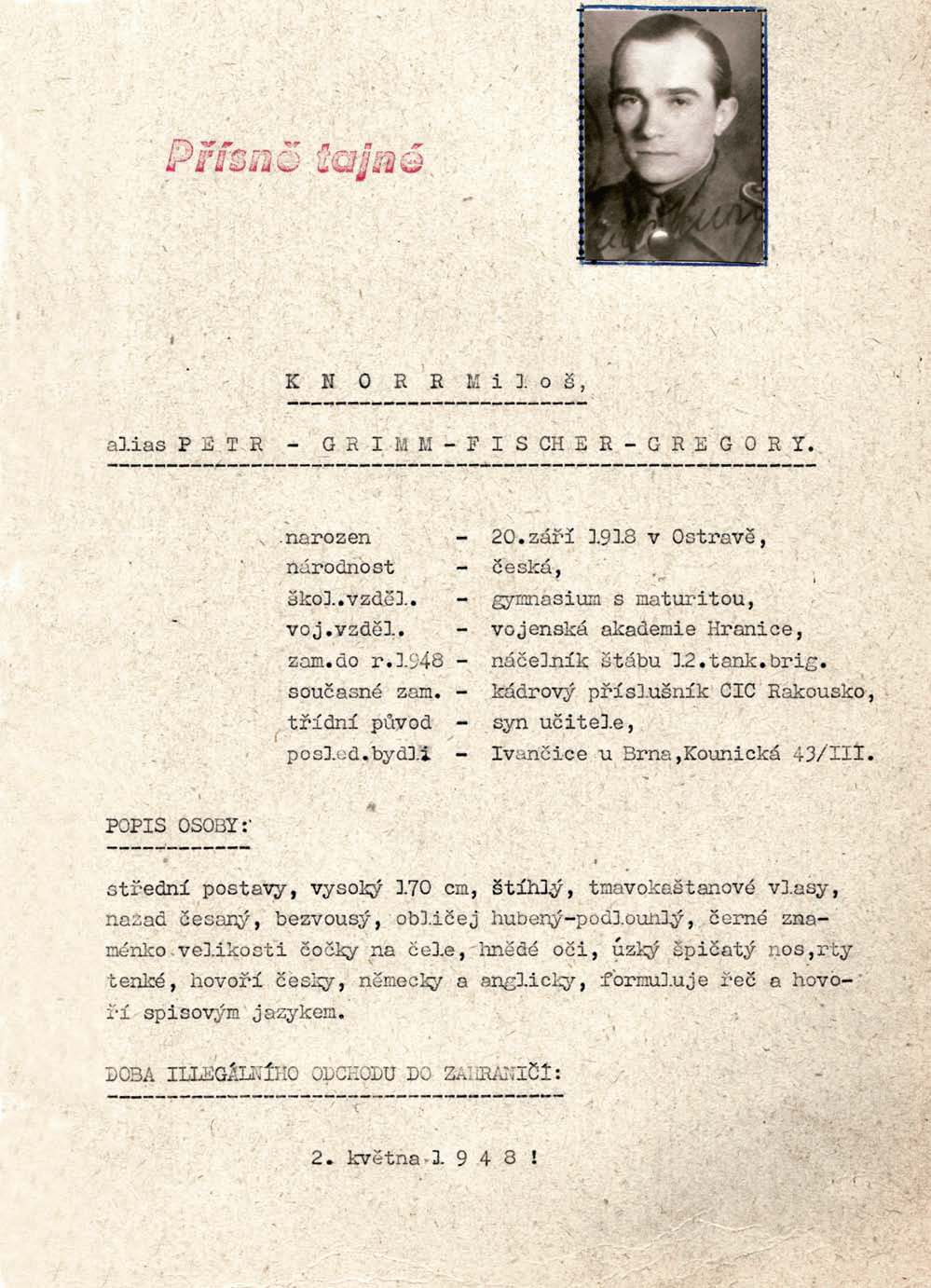 Miloš Knorr (* September 20, 1918, Silesian Ostrava - July 1, 2008, New York, USA) was a veteran of the Second World War; Major General; one of the three Czechoslovak soldiers who participated in June 1944 in disembarking allies in Normandy; post-war US intelligence officer; a resistance and a personality fighting the Nazi and Communist dictatorship. Photo: A personal card from the file that led Czechoslovak State Security (StB) to Miloš Knorr (in 1950s)